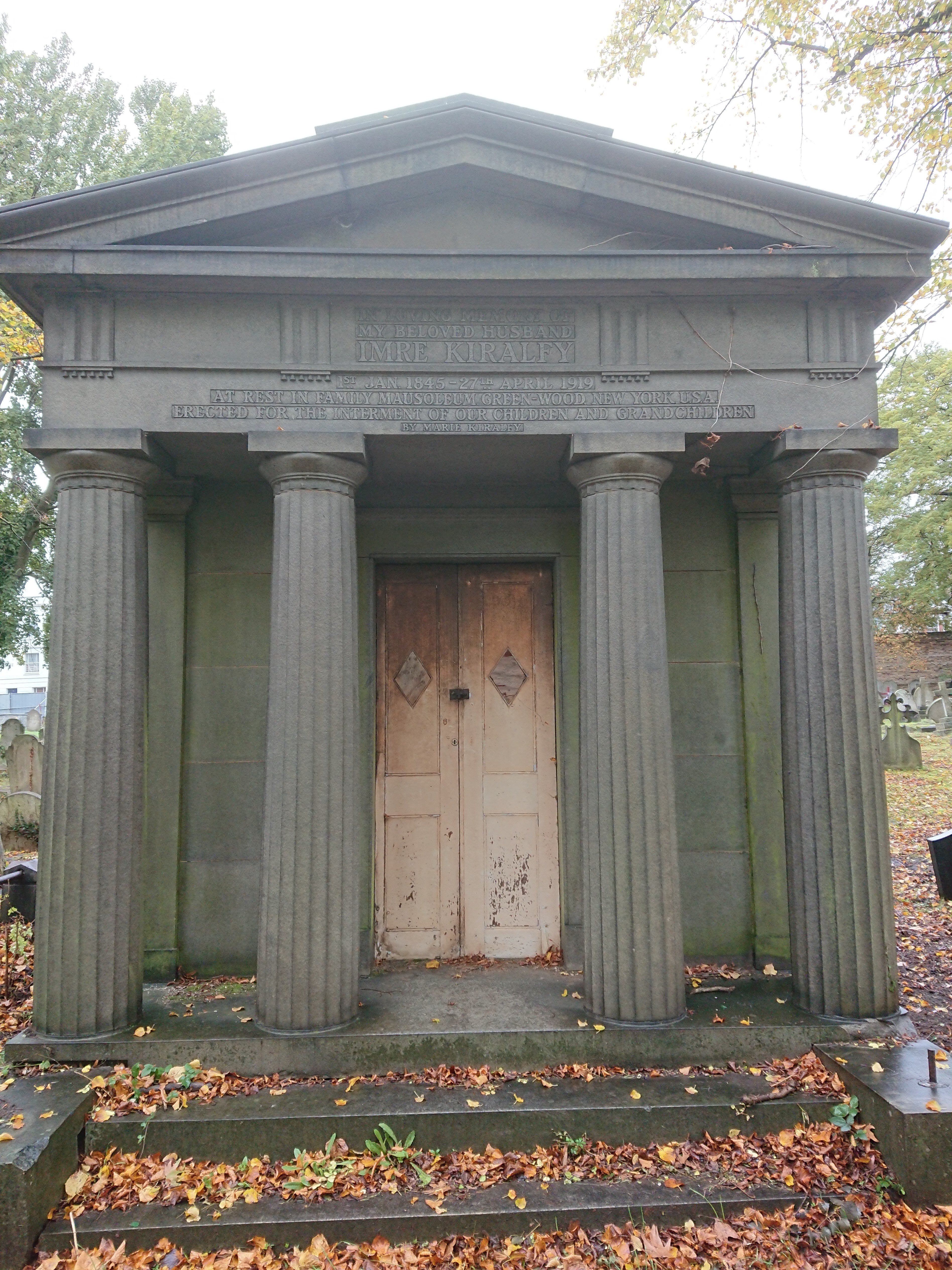 The memorial of Imre Kiralfy at Kensal Green Cemetary, London